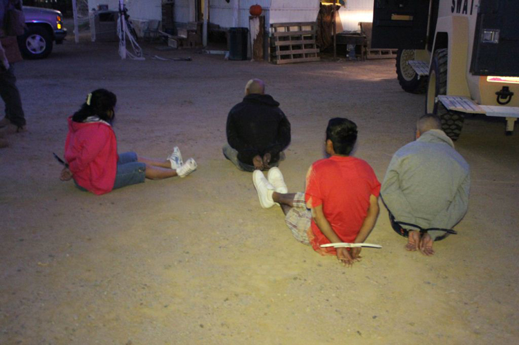 This ICE photo shows people under arrest. It was released in conjunction with Operation Pipeline Express. Operation Pipeline Express (press release) was an action carried out by Homeland Security Investigations, a branch of U.S. Immigration and Customs Enforcement. Officials announced the discovery of a large drug trafficking operation from Mexico into Arizona.